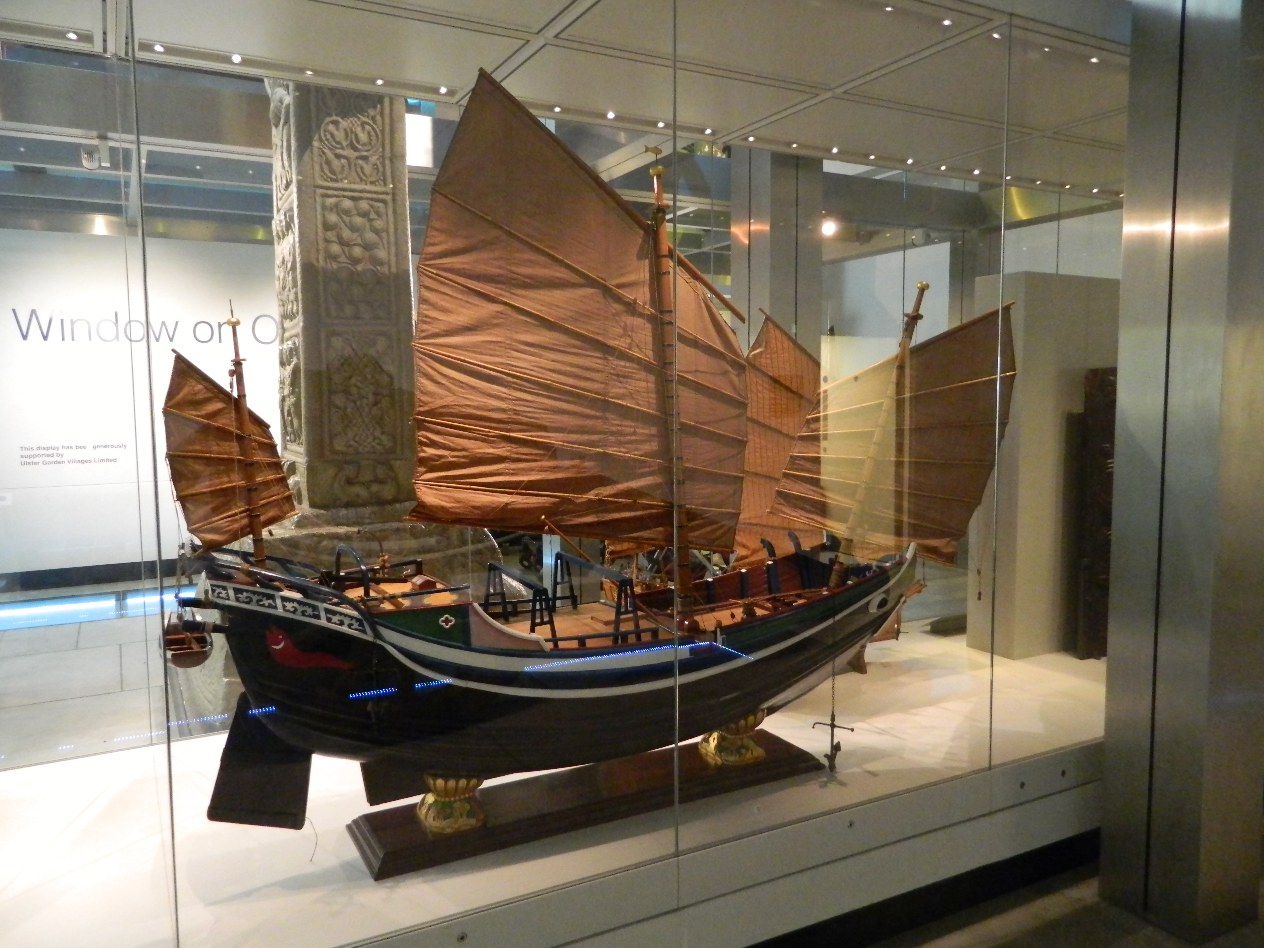 Scale model of rice carrier, Ulster Museum